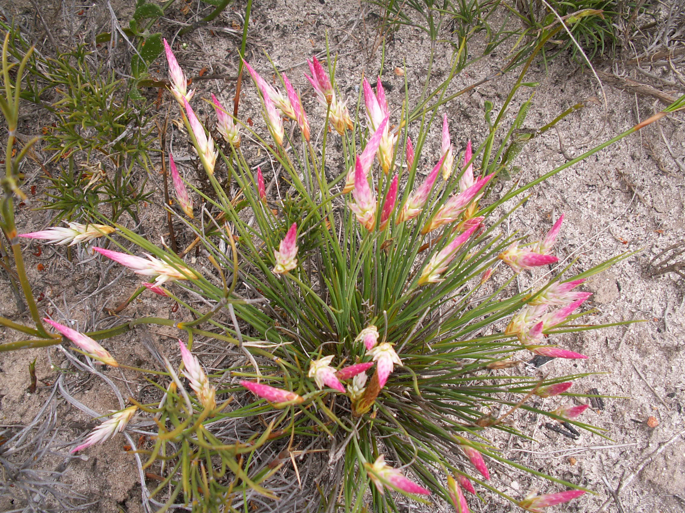 Lesueur National Park